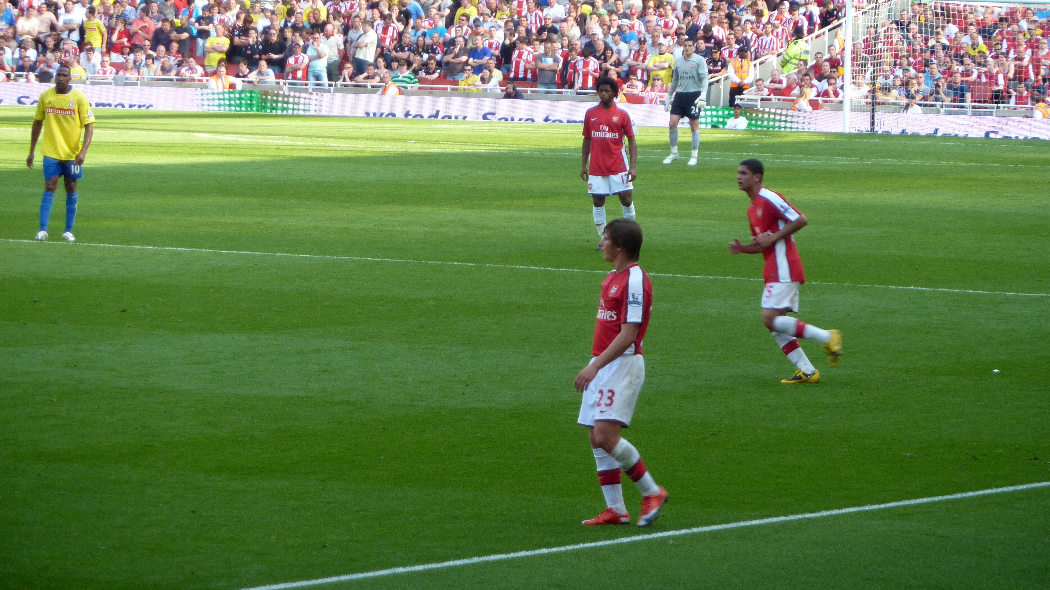 Quiet recently, but still has some magic. Can't wait to see him next season.